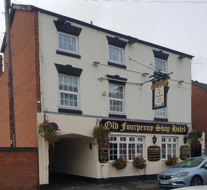 Old Four Penny Shop Hotel, Warwick